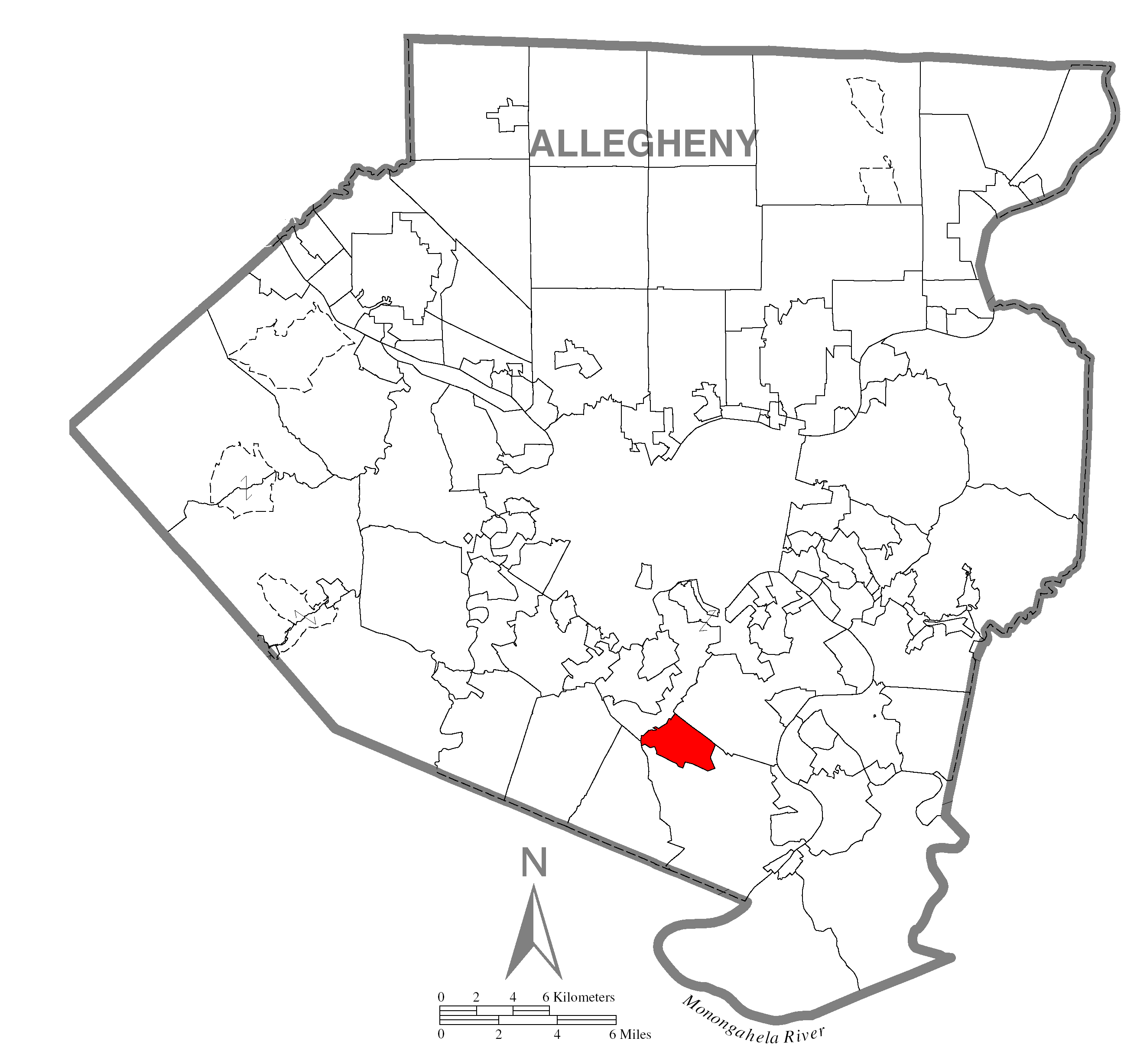 A map of Allegheny County showing Pleasant Hills, Pennsylvania (alternate) highlighted on the map.